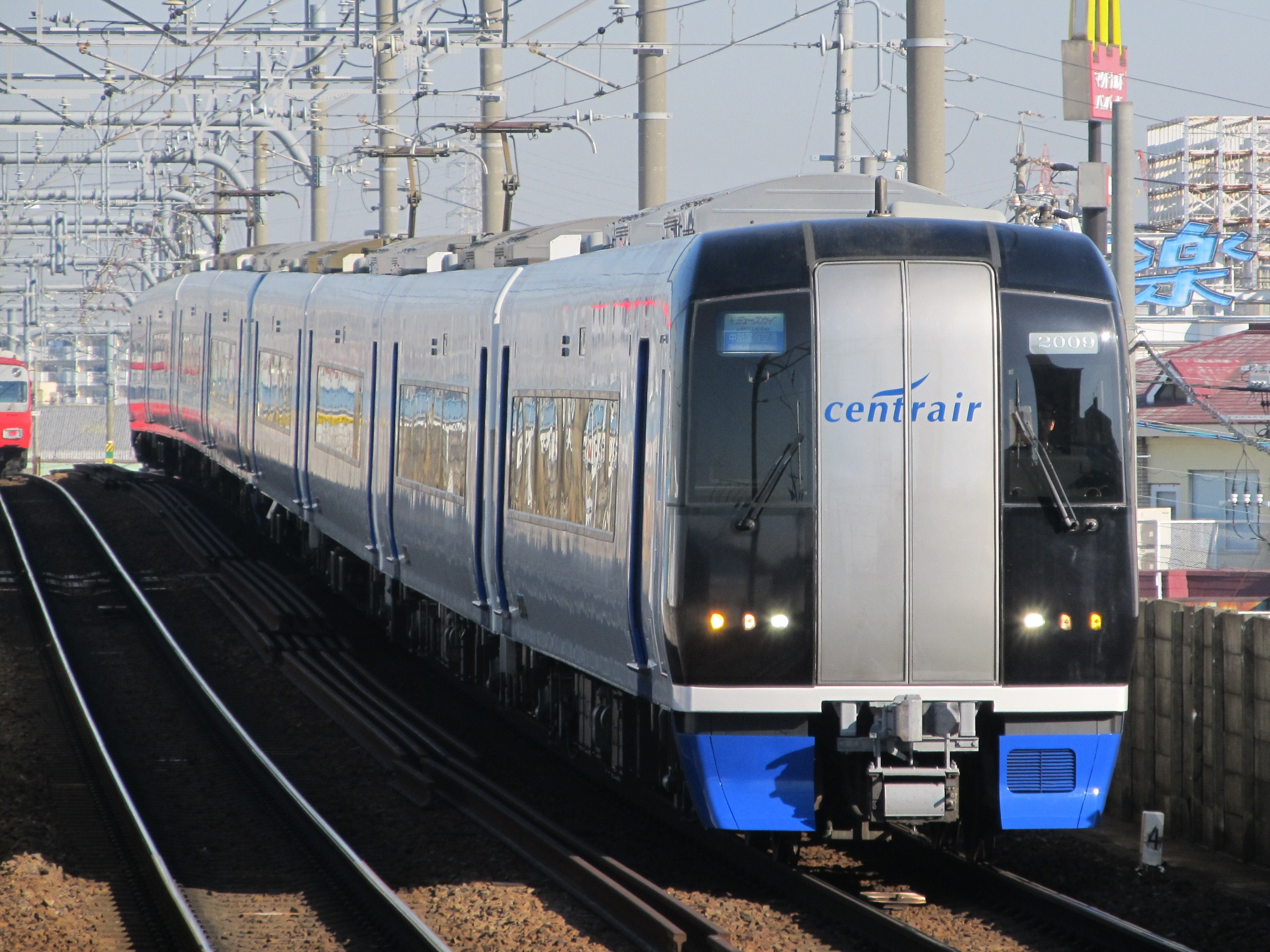 Meitetsu 2000 series. μSky Limited Express bound for bound for Central Japan Int'l Airpt. In Tokoname Line.